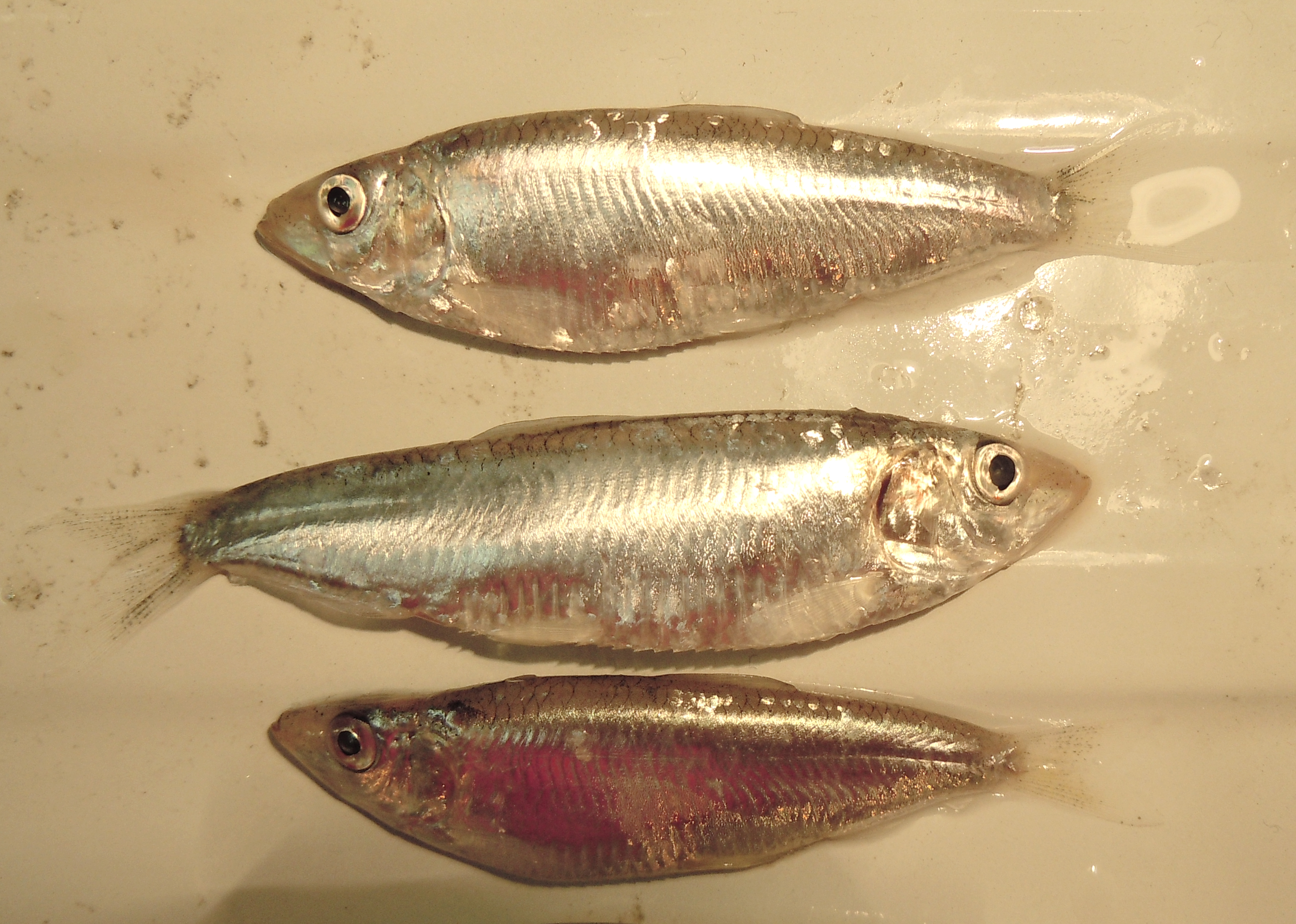 Black Sea sprat (Clupeonella cultriventris) from the Danube Delta, Ukraine